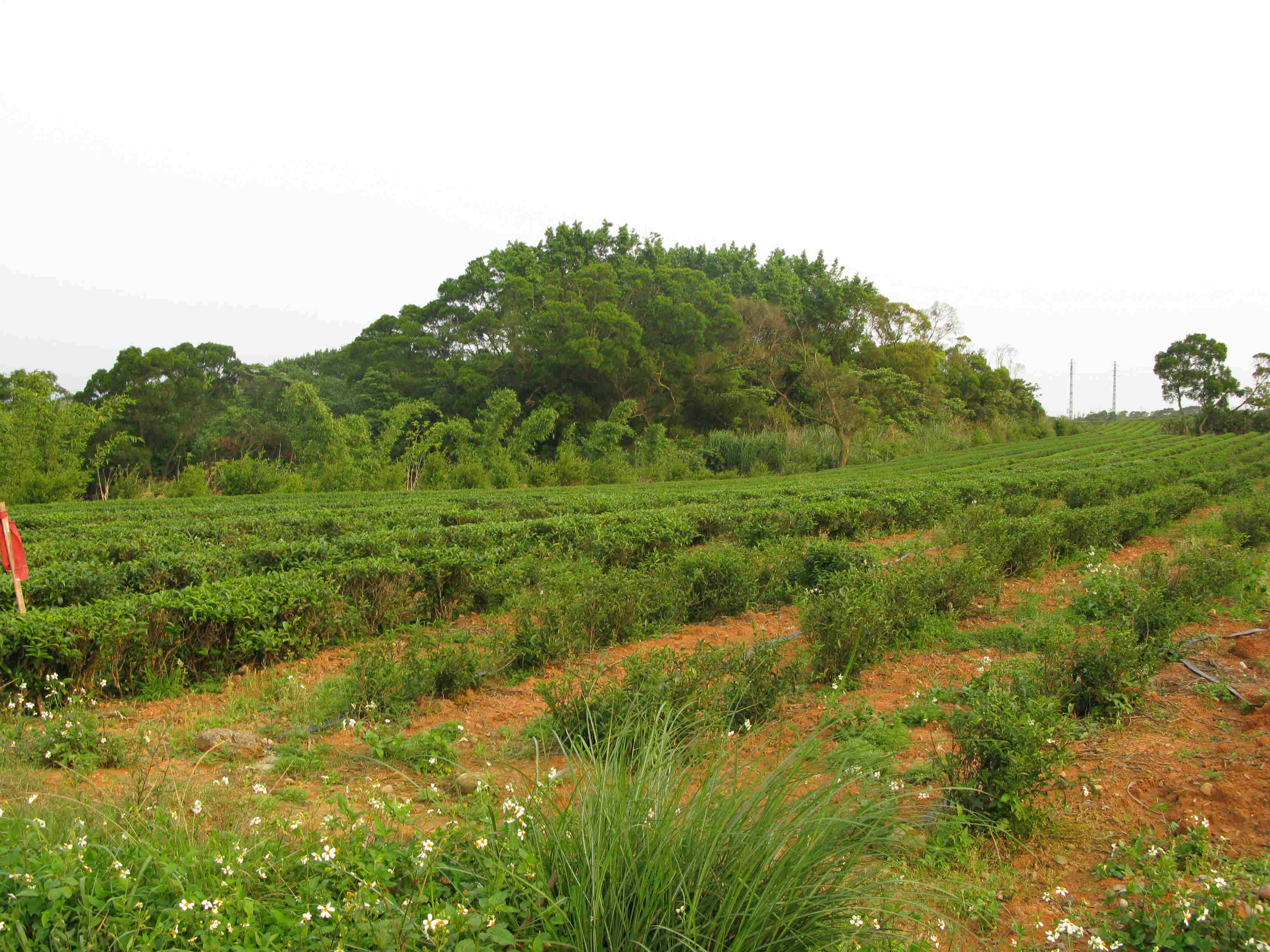 Gueishan Tea garden, Taiwan.